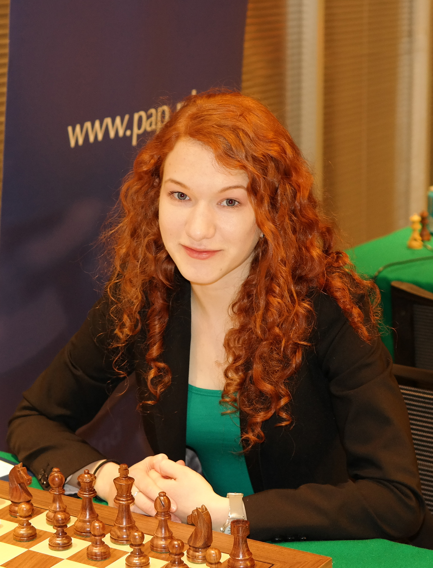 WIM Anna Iwanow, Polish Chess Championship, Warsaw 2014